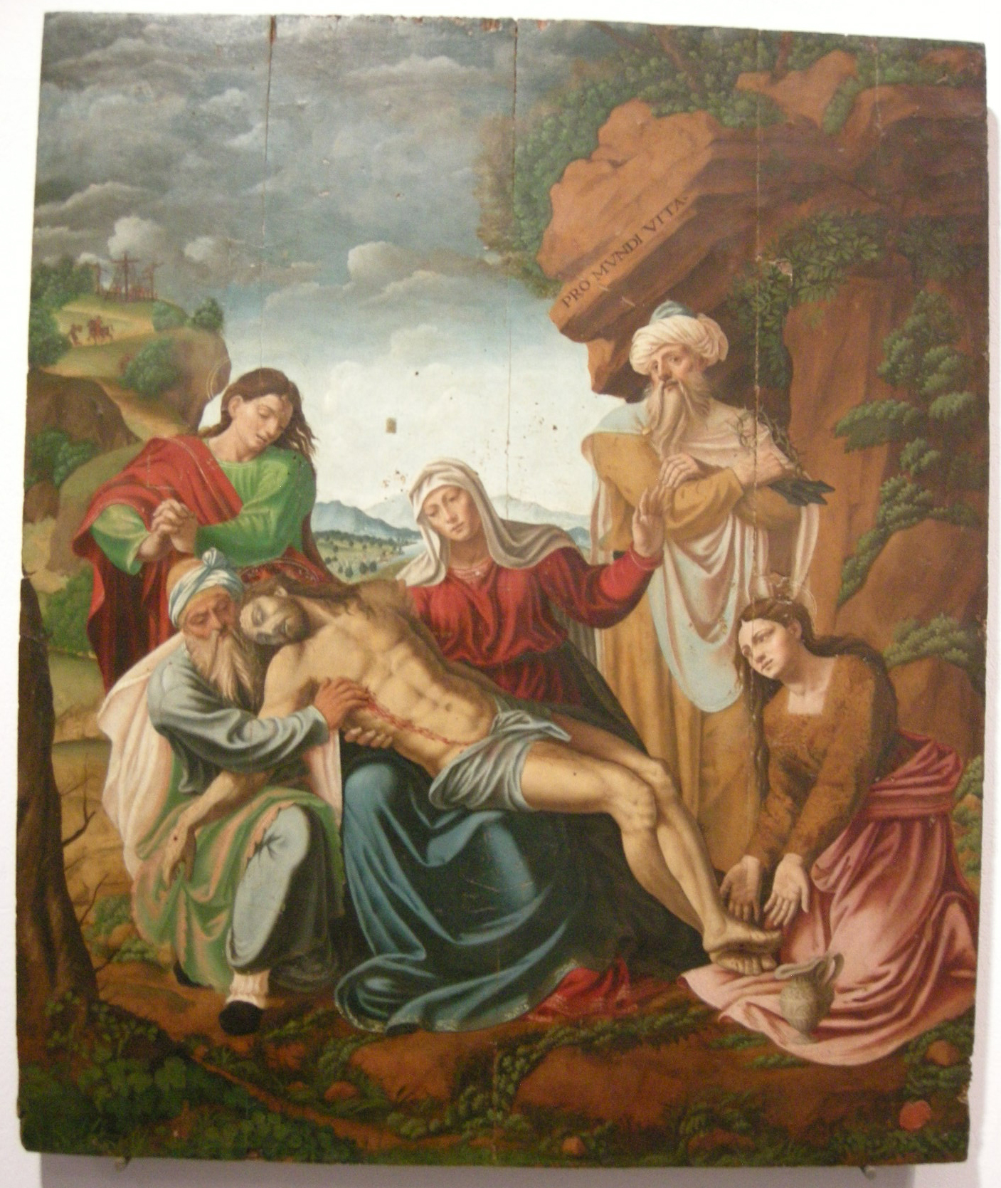 The Deposition